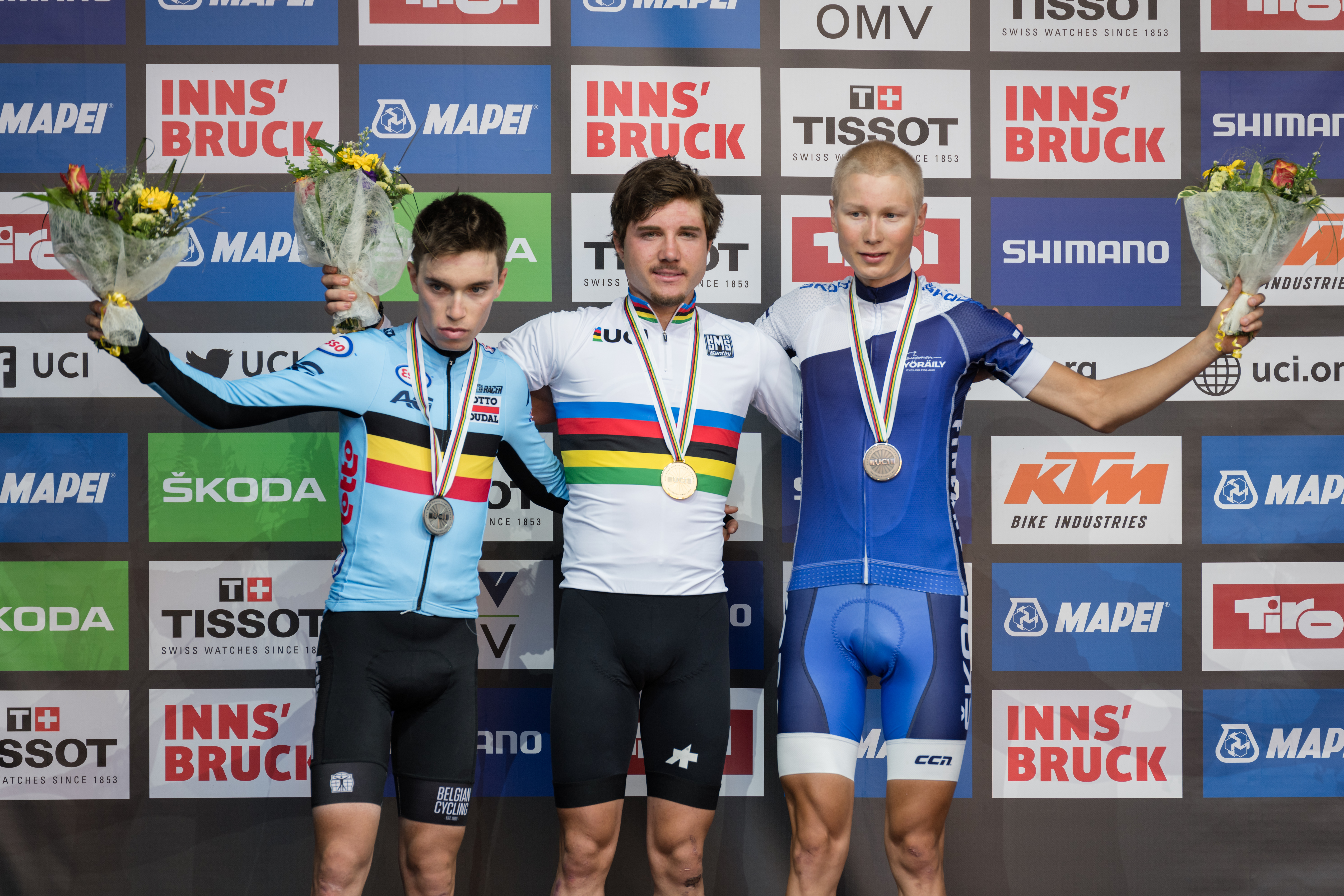 2018 UCI Road World Championships Innsbruck/Tirol Men under 23 Road Racel. Picture shows: Award Ceremony with Bjorg Lambrecht of Belgium, winner Marc Hirschi of Switzerland and Jaakko Hanninen of Finland